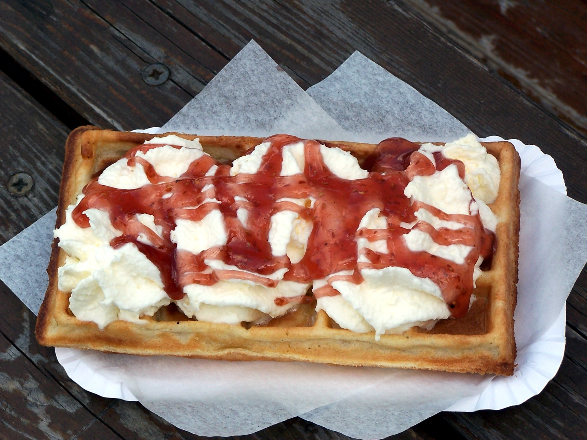 Gofr, a Polish name for waffle, often with add-ons on top like cream and jam, and sold in small food stalls across the country.